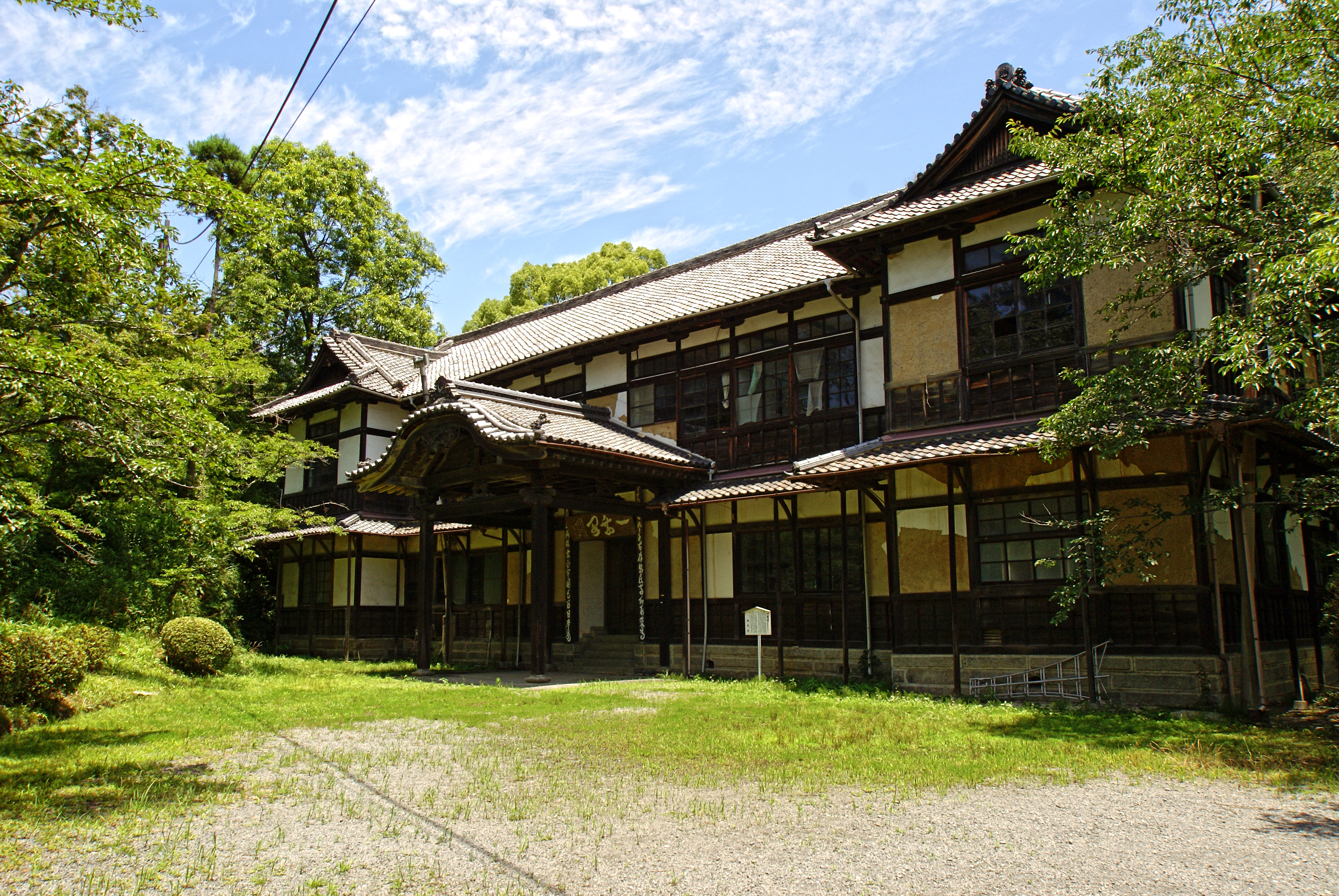 Ichijokaku in Iwade, Wakayama prefecture, Japan